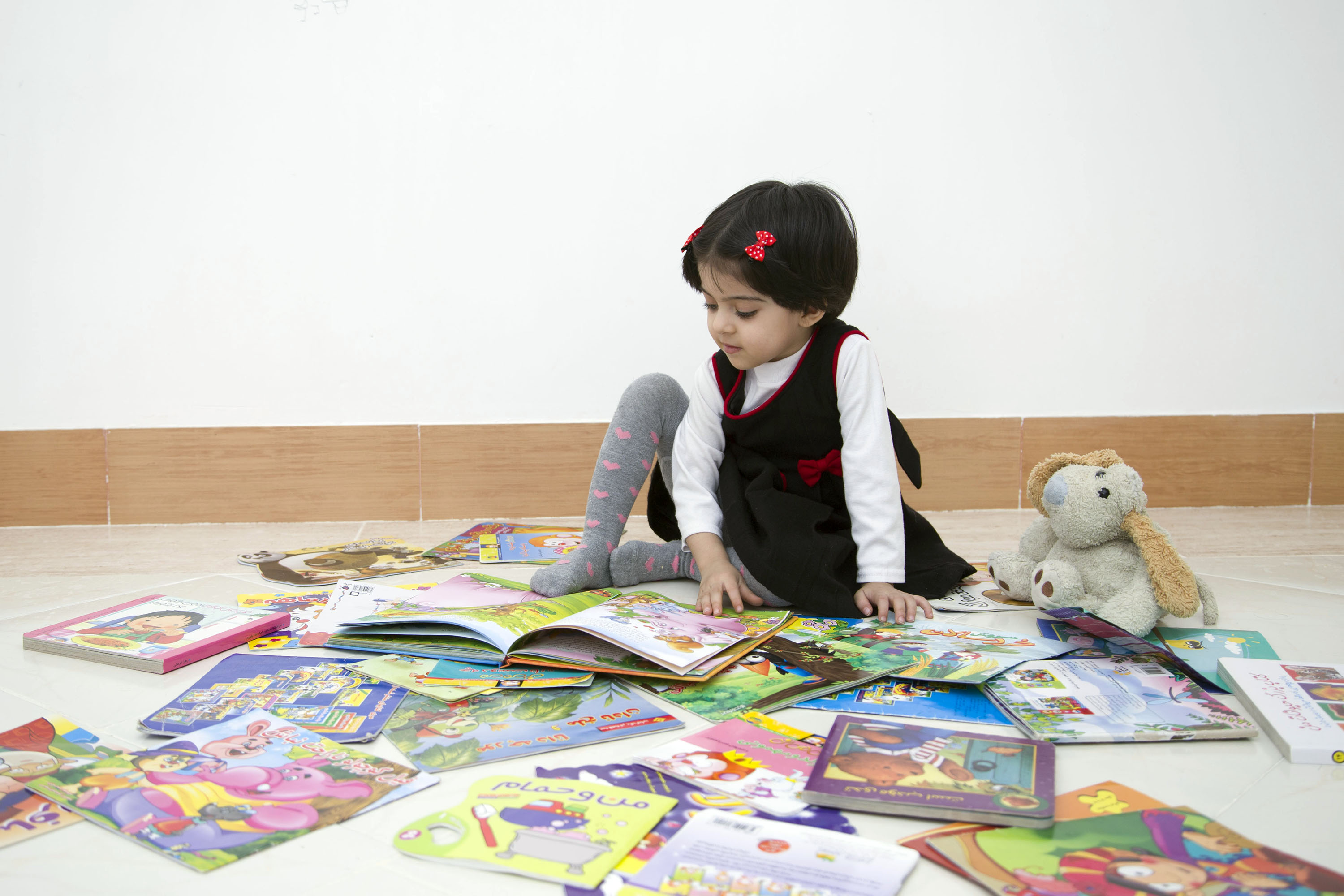 Developmental psychology is the scientific study of how and why human beings change over the course of their life. Originally concerned with infants and children, the field has expanded to include adolescence, adult development, aging, and the entire lifespan.